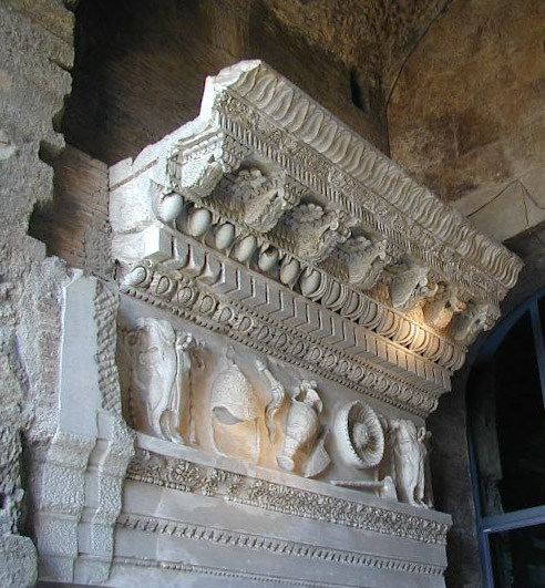 Entablature of the Temple of Vespasian in the Roman Forum, reconstructed with original fragments in the Tabularium in Rome (Capitoline Museums). Photo by Lalupa.